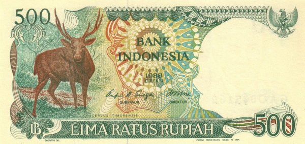 Indonesian currency issued 1976-2000.